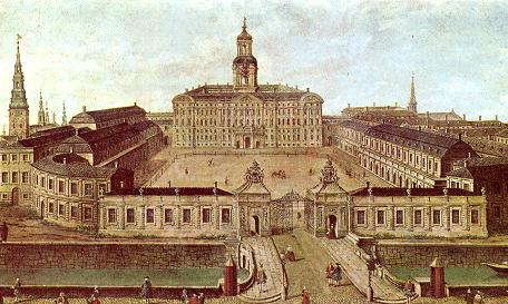 Prospect of Christiansborg Palace as seen towards the main entrance